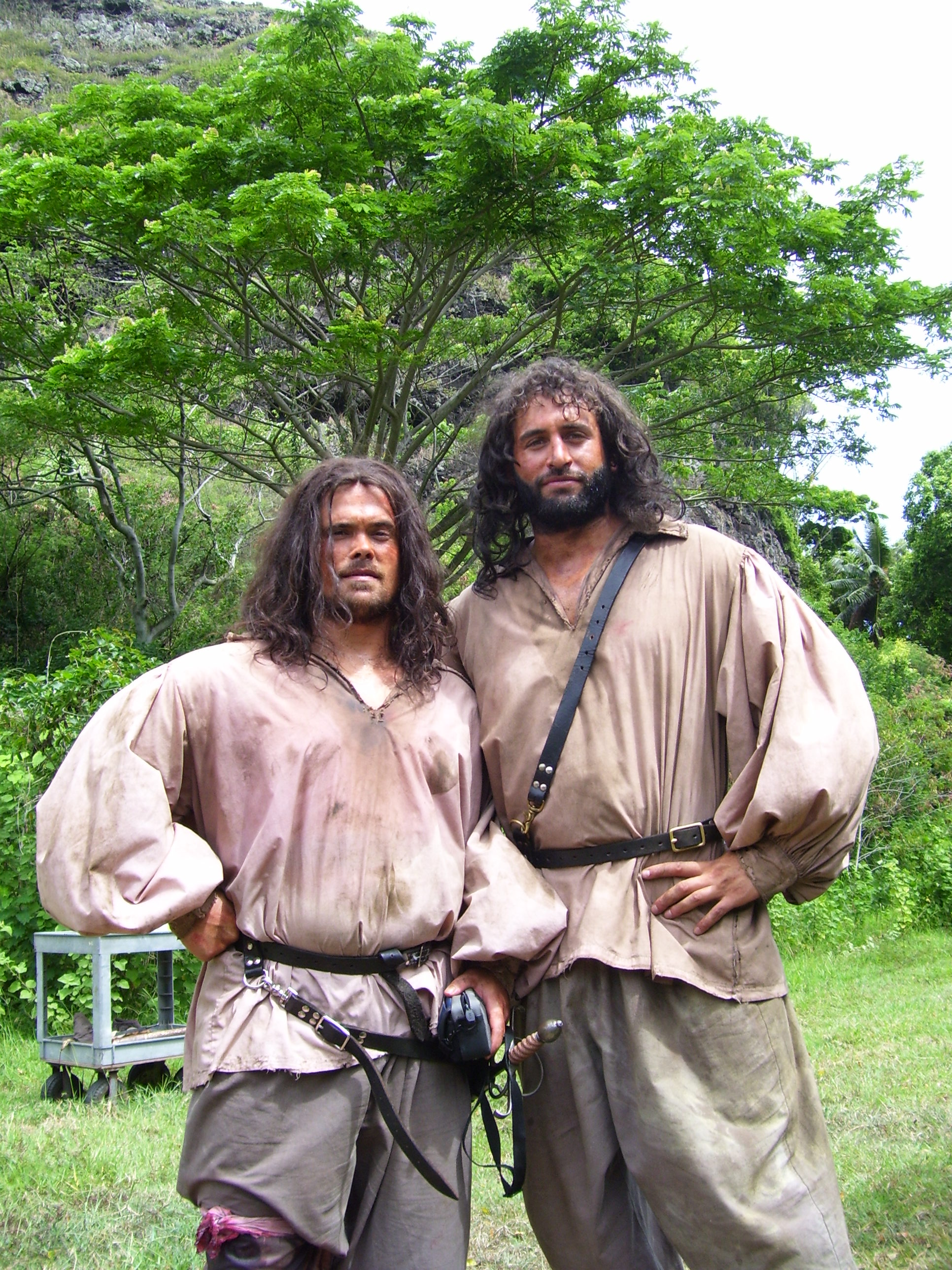 Shawn Lathrop & Marc Antonio on the set of Aztec Rex